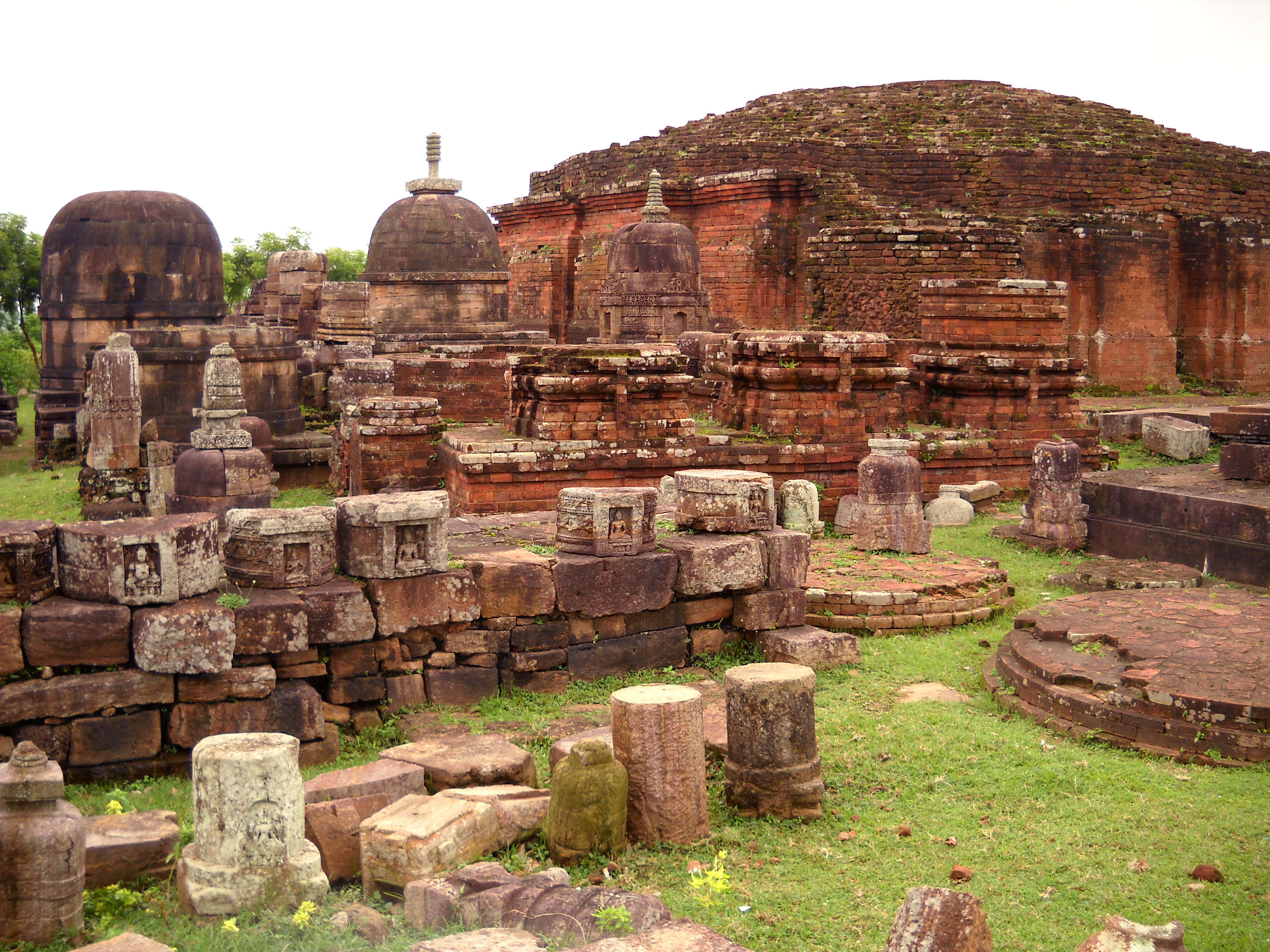 Hill containing many valuable sculptures and images